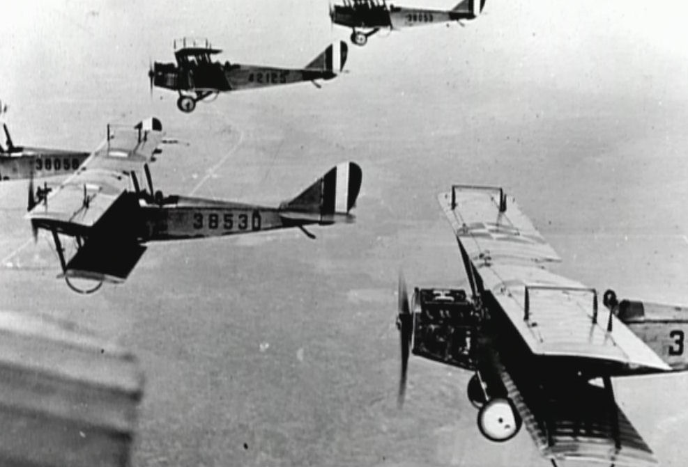 Curtiss JN-4 Jenny trainers from Kelly Field, Texas 1918